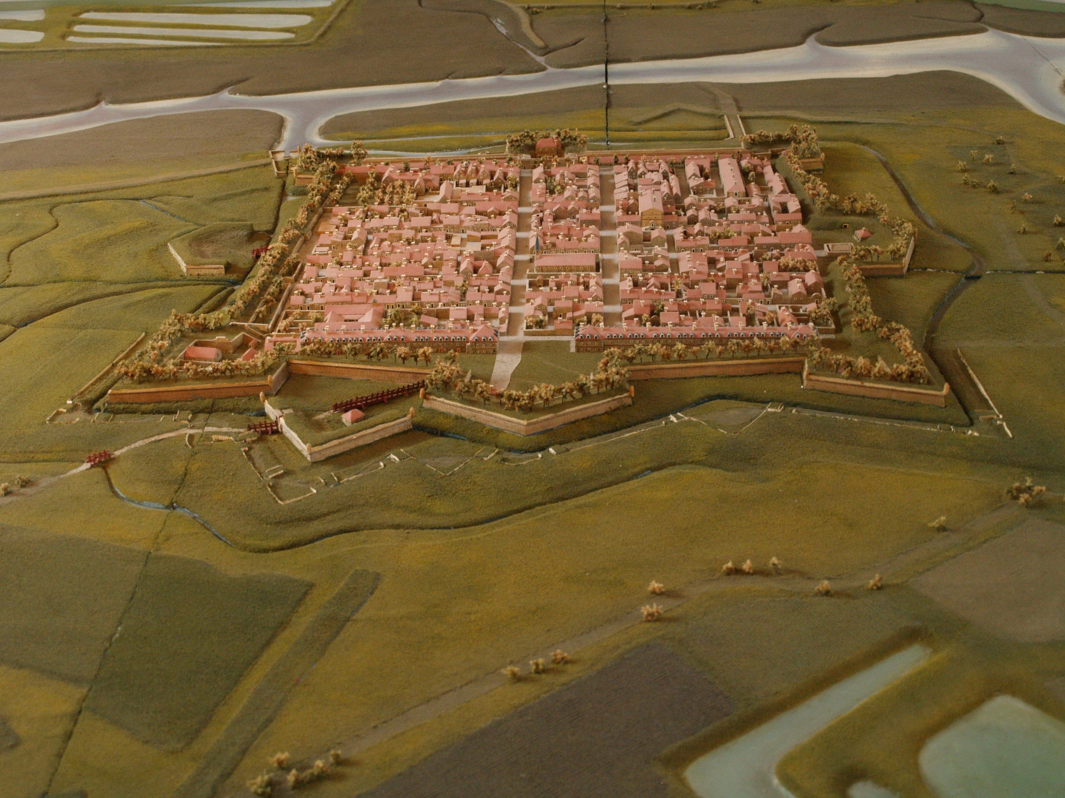 Citadel of Brouage (Charente-Maritime, France) - copy of the XVIIth century scale-model (exhibited in the Halle aux vivres of the citadel)